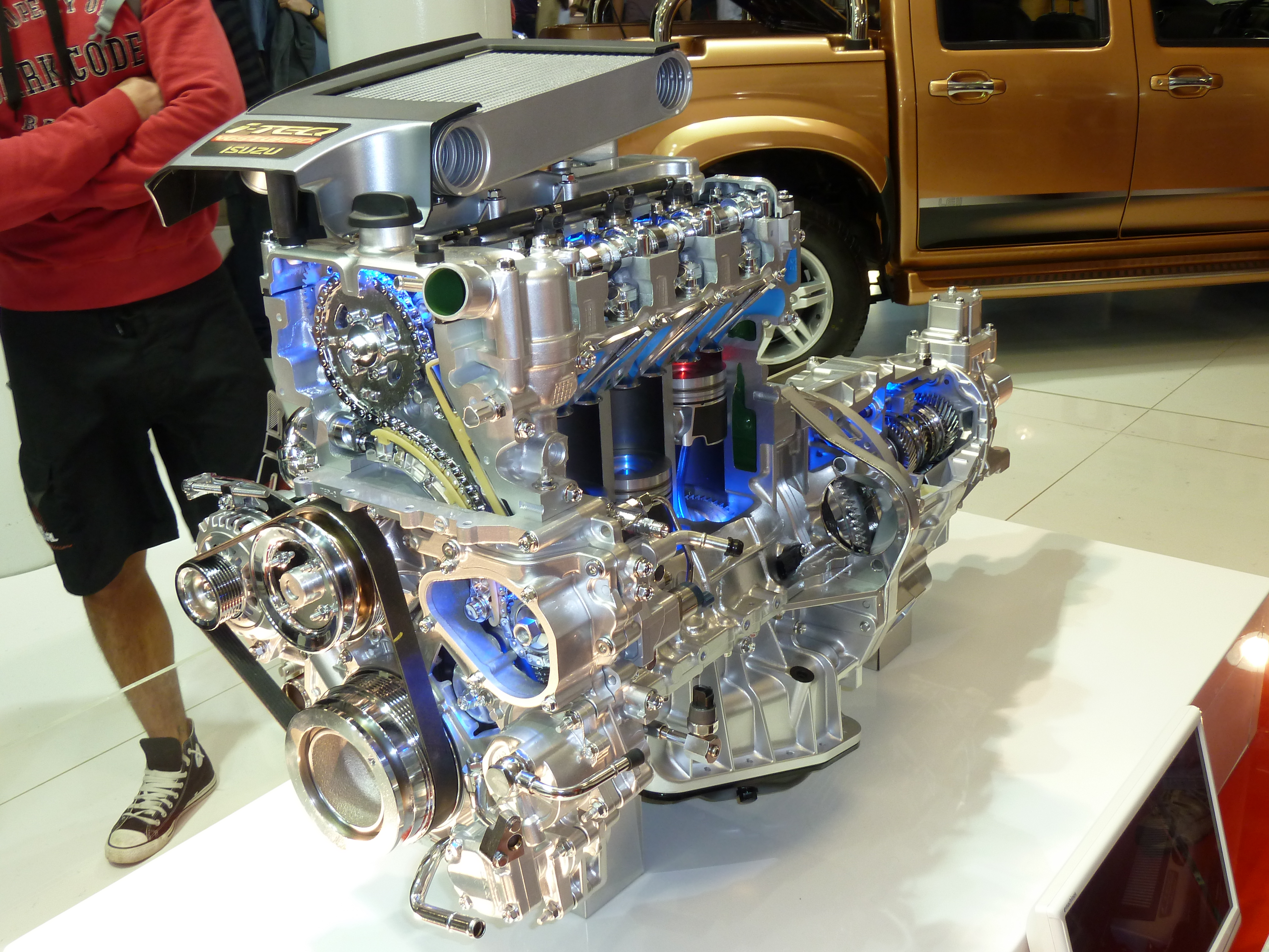 Isuzu D-Max VGS Turbo iTeq engine. Photographed at the 2010 Australian International Motor Show, Sydney, New South Wales, Australia.